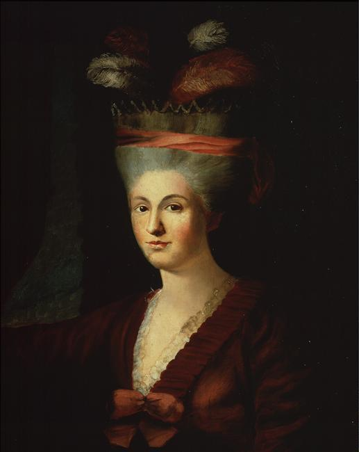 Portrait of Nannerl Mozart (1751-1829)